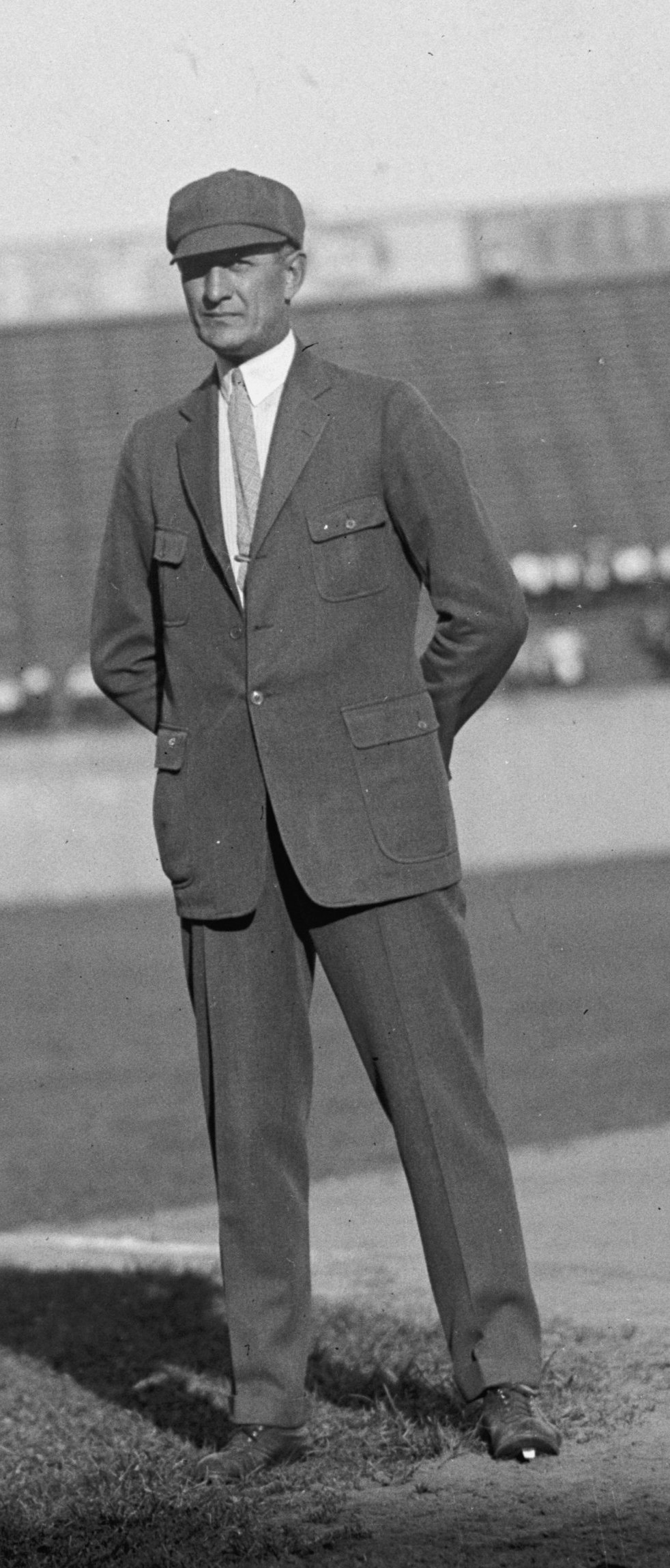 Ump. Giesel Abstract/medium: 1 negative : glass ; 4 x 5 in. or smaller